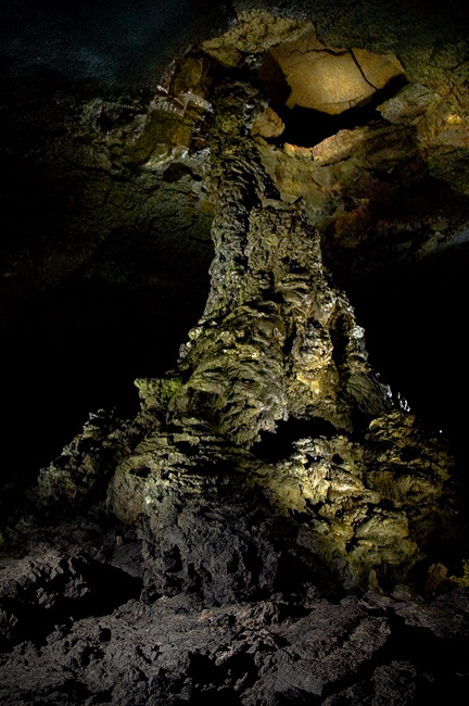 Manjanggul Lava Tower at the end of the Tourist access to the Manjanggul Lava Tube